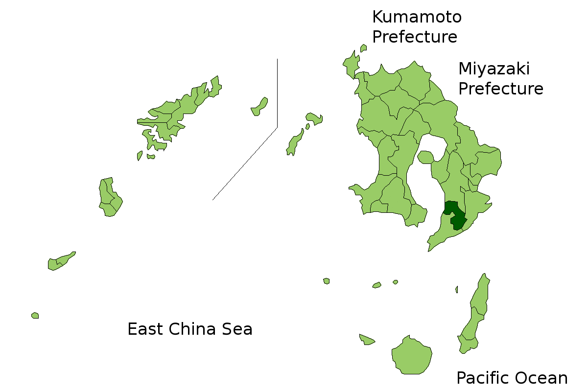 Location Map of Kinko in Kagoshima Prefecture, Japan